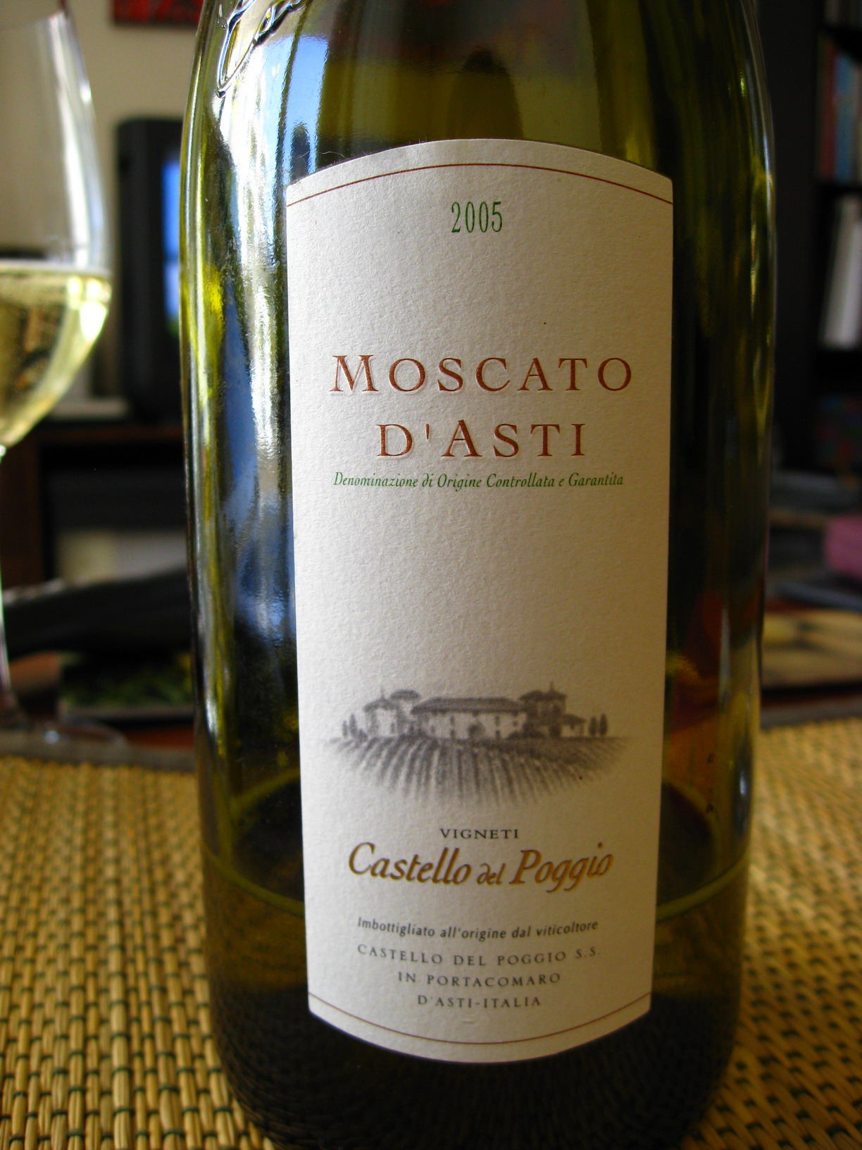 The Italian wine Moscato d'Asti from the Piedmont region